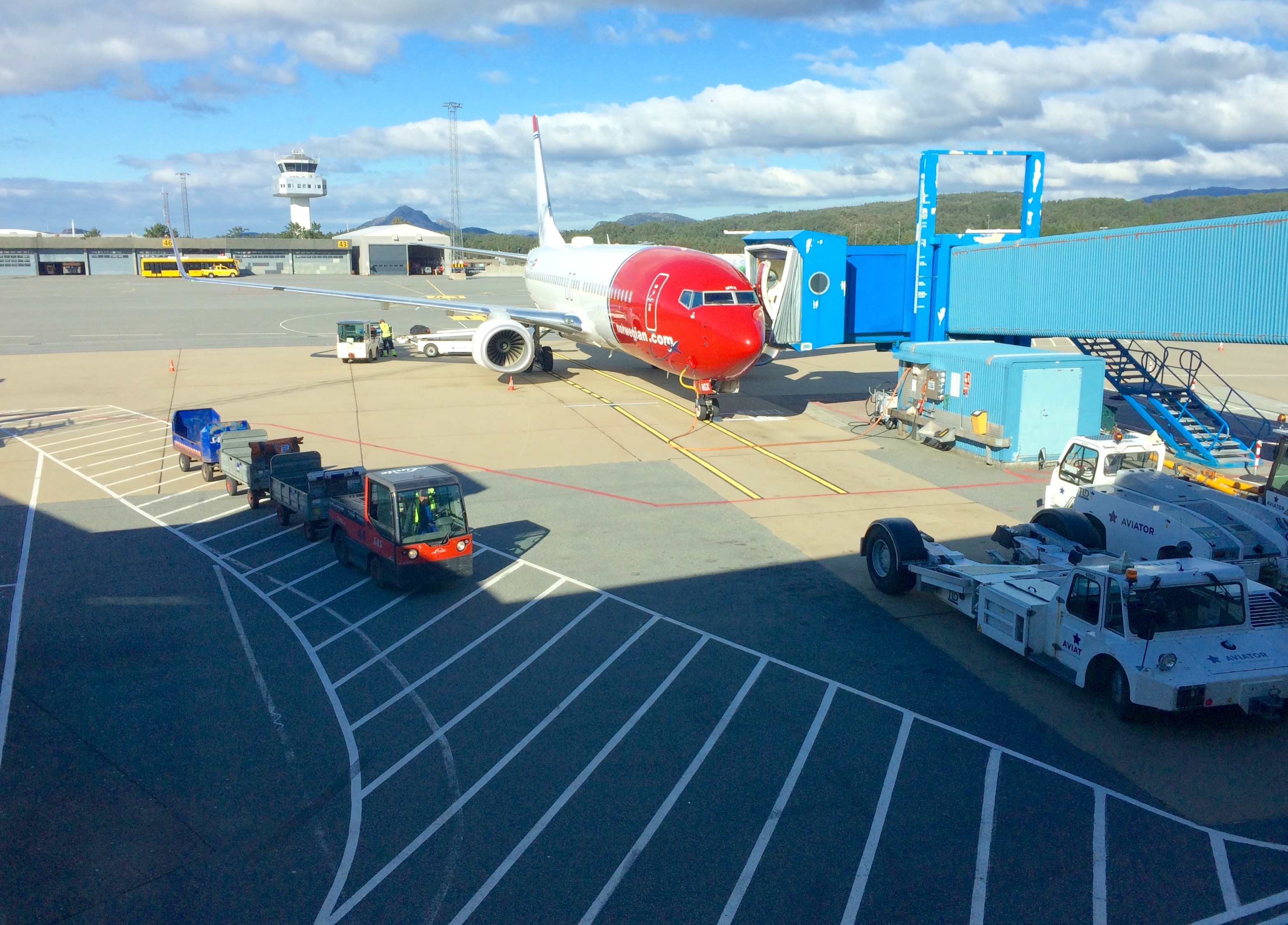 Aircraft of Norwegian Air Shuttle at Bergen Airport, Flesland, Norway. 21st September, 2015.